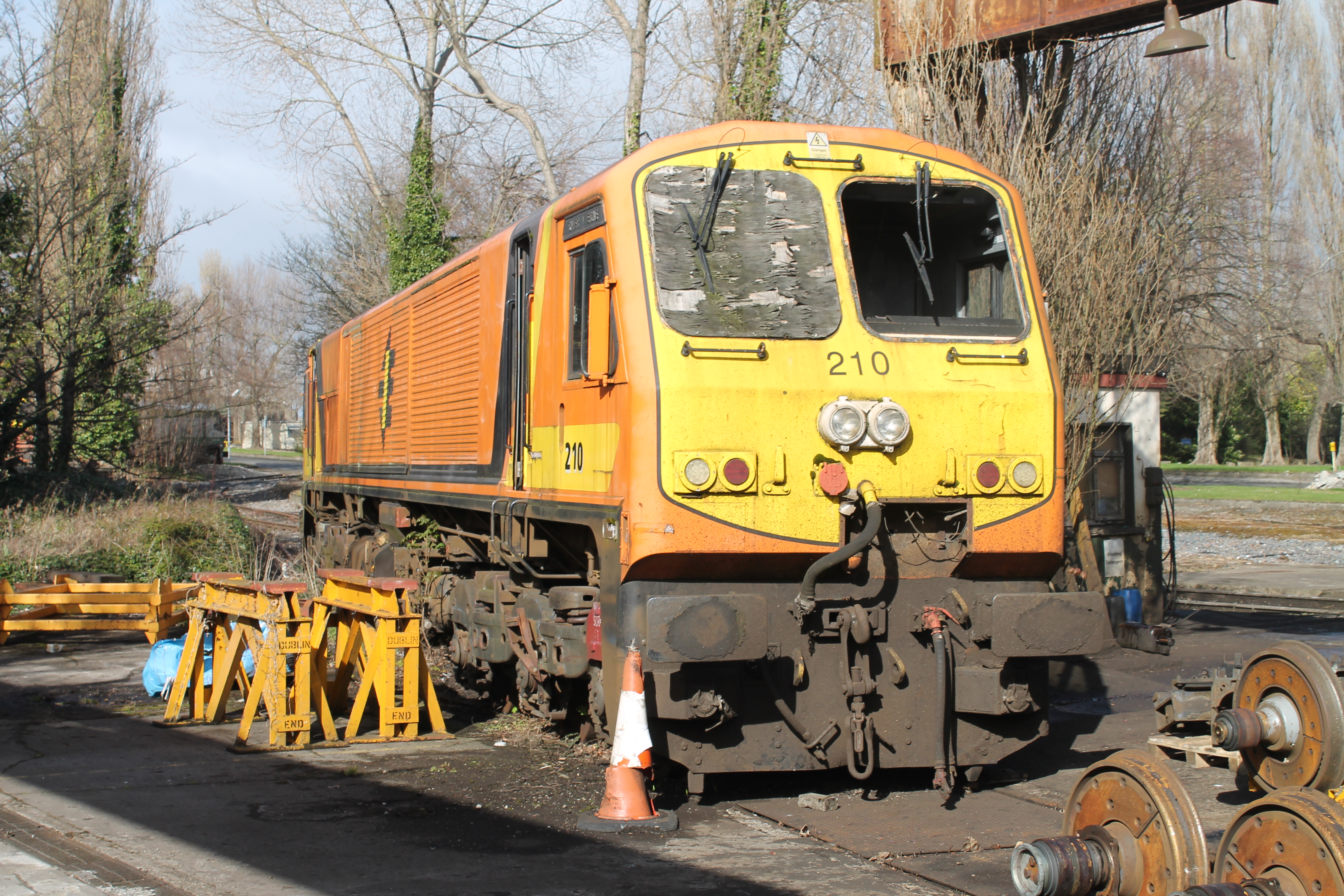 Stored 201 Class locomotive No. 210 at Inchicore works. 07/04/2016